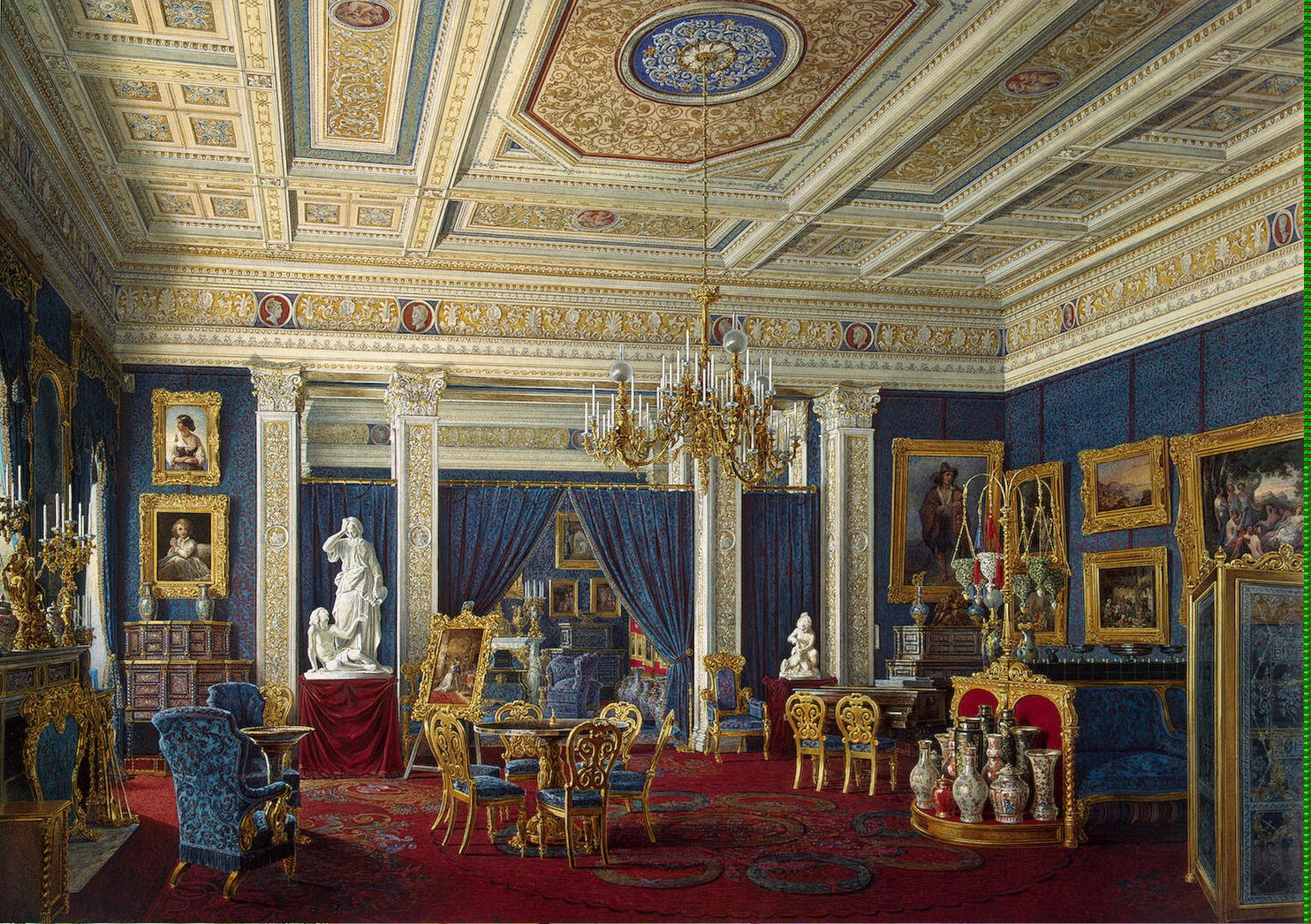 Hau Edward Petrovich - Blue Drawing-Room in the Mariinsky Palace